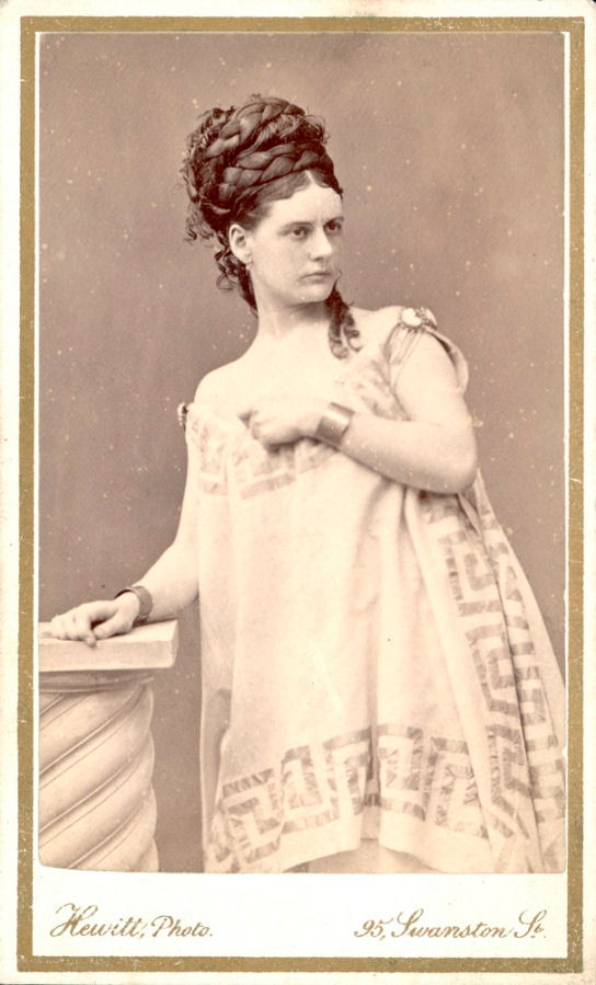 The Australian actress Hattie Shepparde (1846-1874) by by Charles Hewitt 1873